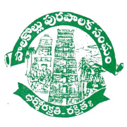 This picture Official logo of Palakollu Municipality